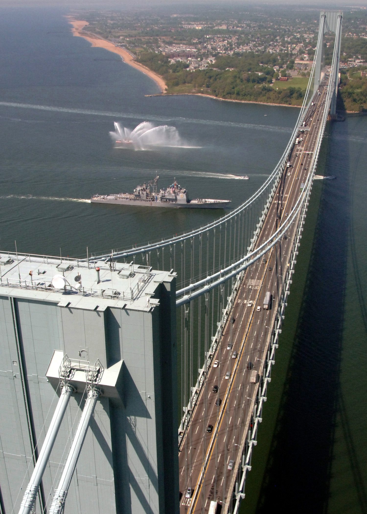 The guided-missile cruiser USS Leyte Gulf (CG 55) steams under the Verrazano Narrows Bridge during the parade of ships on the opening day of Fleet Week New York 2008. More than 4,000 Sailors, Marines, and Coast Guardsmen will participate in various community relations projects and make a port call to New York City.